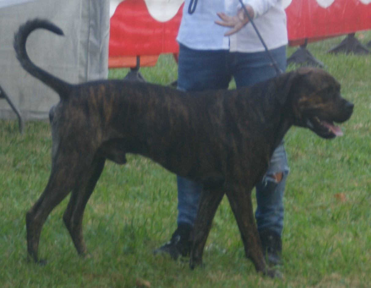 A Spanish Alano, black brindle, male